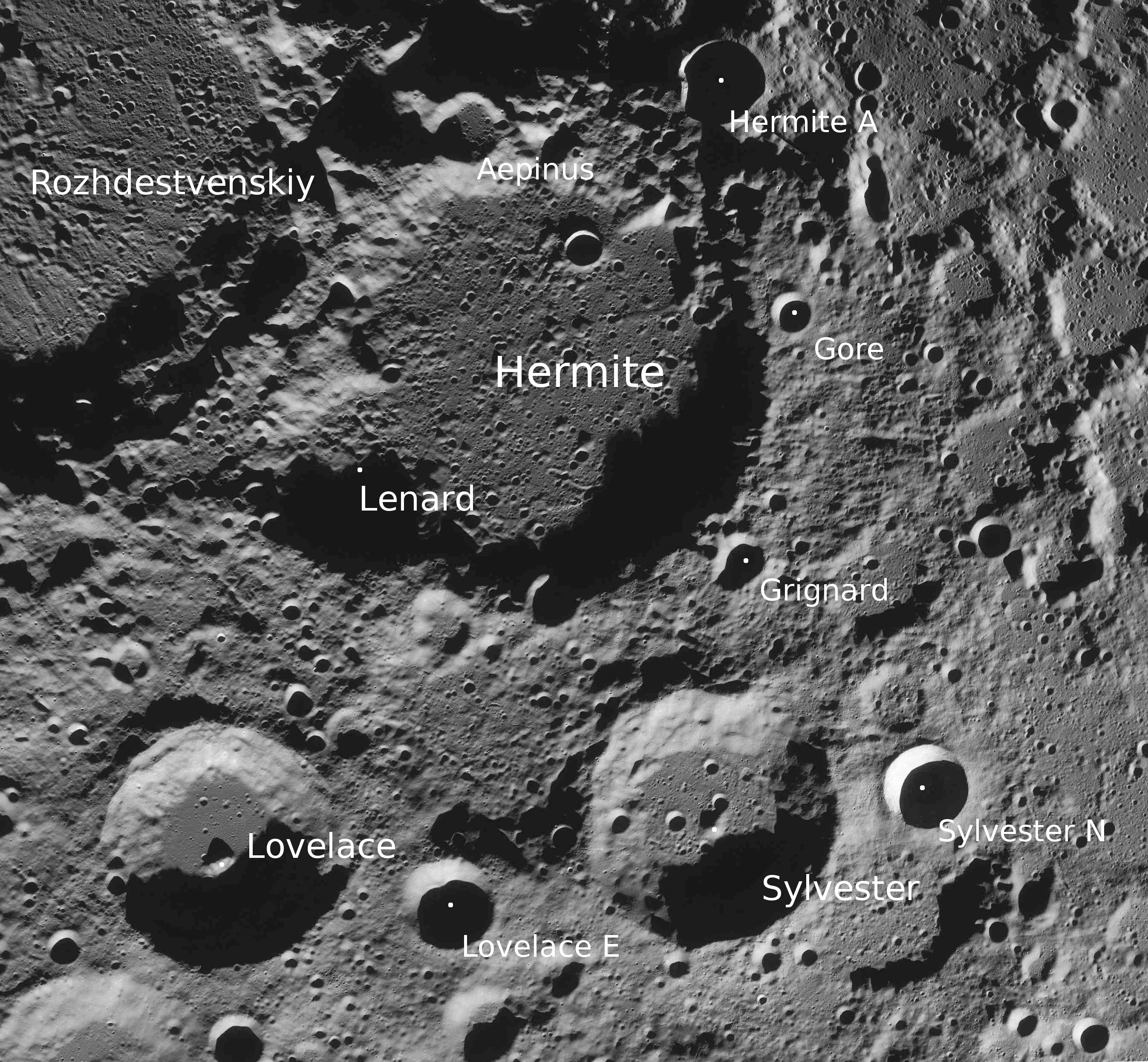 Moon craters Hermite, Lenard, Grignard and Gore (detail of LRO - WAC north pole mosaic)